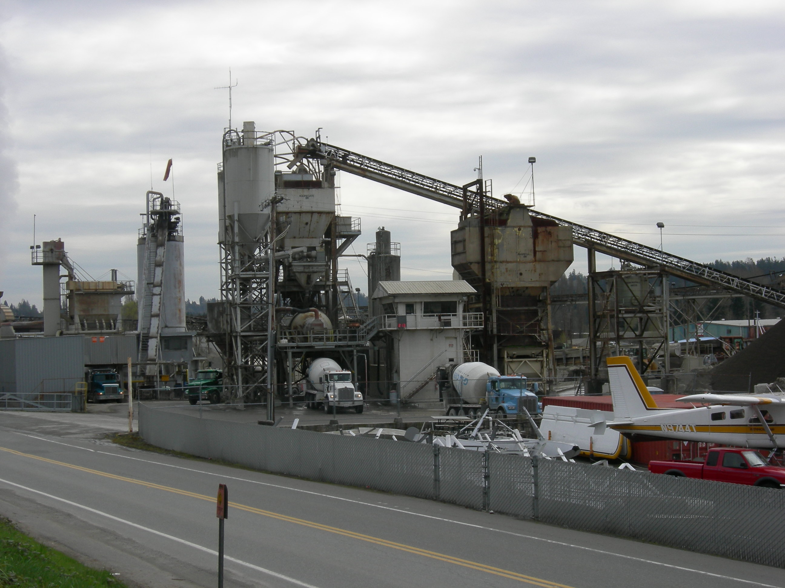 The Glacier Northwest cement works, Kenmore, Washington, seen from the Burke-Gilman Trail. At right is a seaplane from the adjacent air harbor.